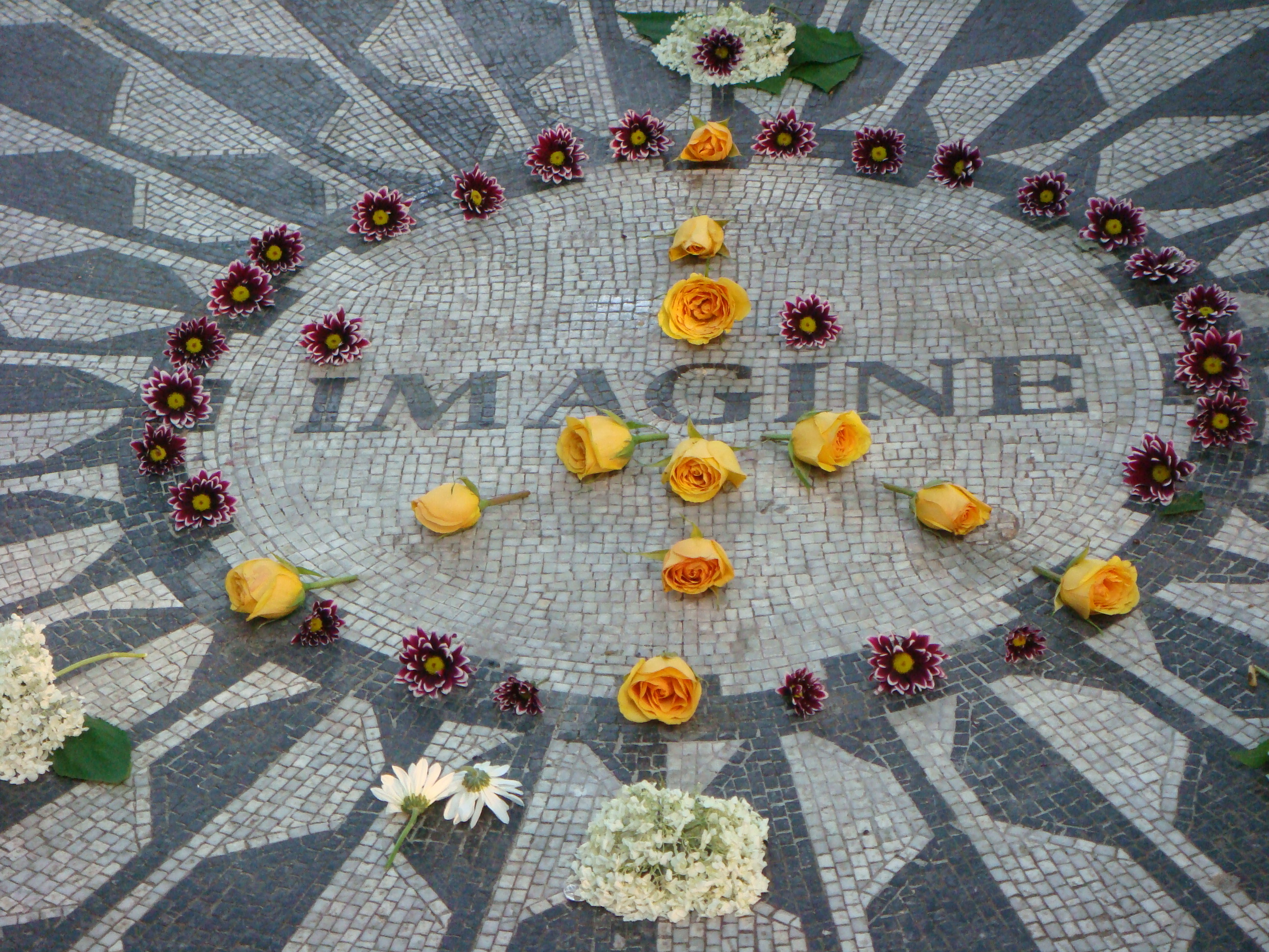 Picture of John Lennon's Strawberry Fields Forever Memorial from July 14, 2007.